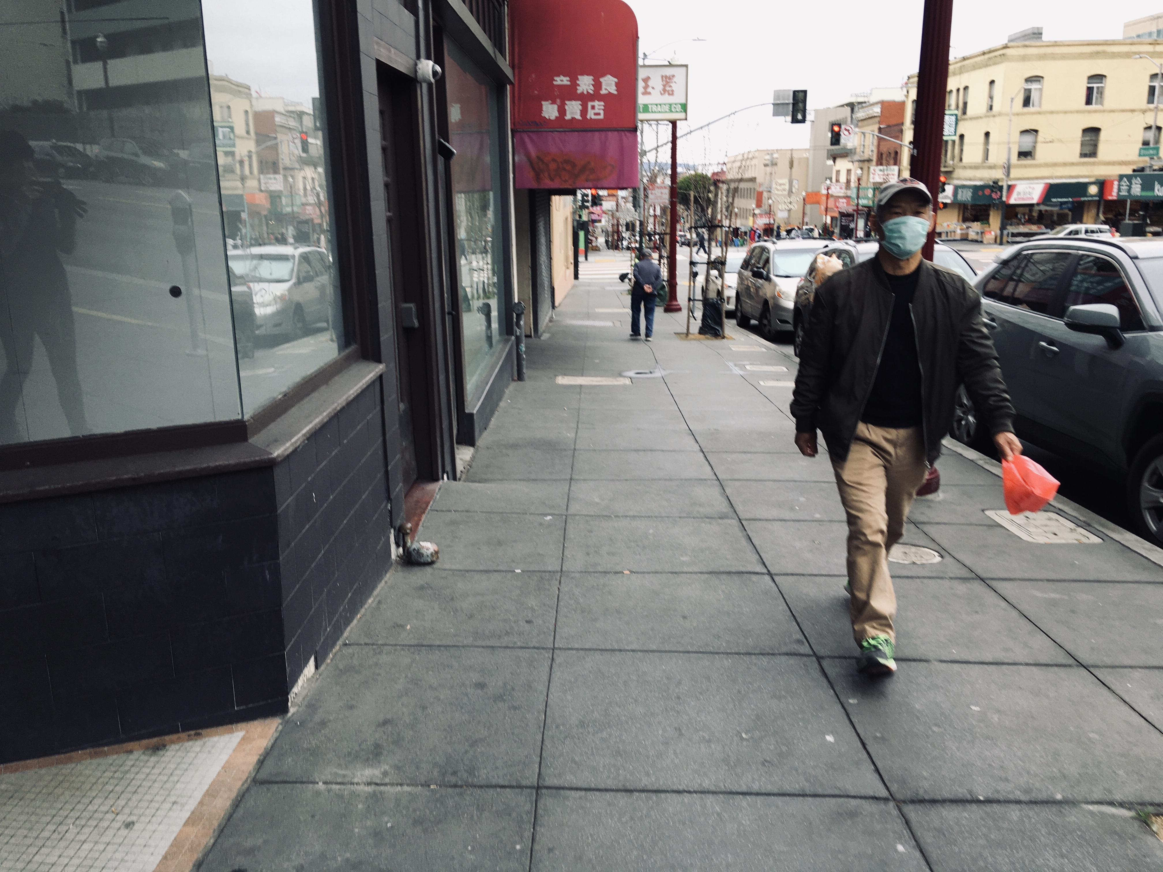 Quiet City